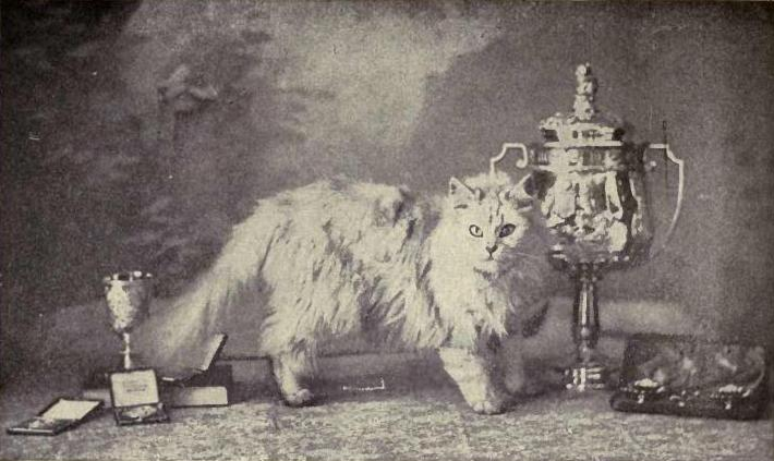 "CHAMPION FULMER ZAIDA is the renowned Silver female owned by Lady Decies. This cat has won more prizes than any other in the Fancy, numbering over 150. Zaida is almost an unmarked specimen, and her colour is wonderfully pure. She has carried off the highest honours at all the leading shows, and will probably continue to win whenever exhibited"